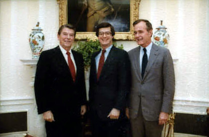 Reagan,Lukens,Nichols,Klings,DuVall,Richards,Shelby,Totten,Masson,Carman,Kinder,Kitchen,Timmons,Roberts,Devine,Bish,Tucker,McPherson,Donatelli,Hertado,Carter,Whetstone, Moore,White,Biebel,Stone,Manafort,Harmon (Not in all photos) posing for photos